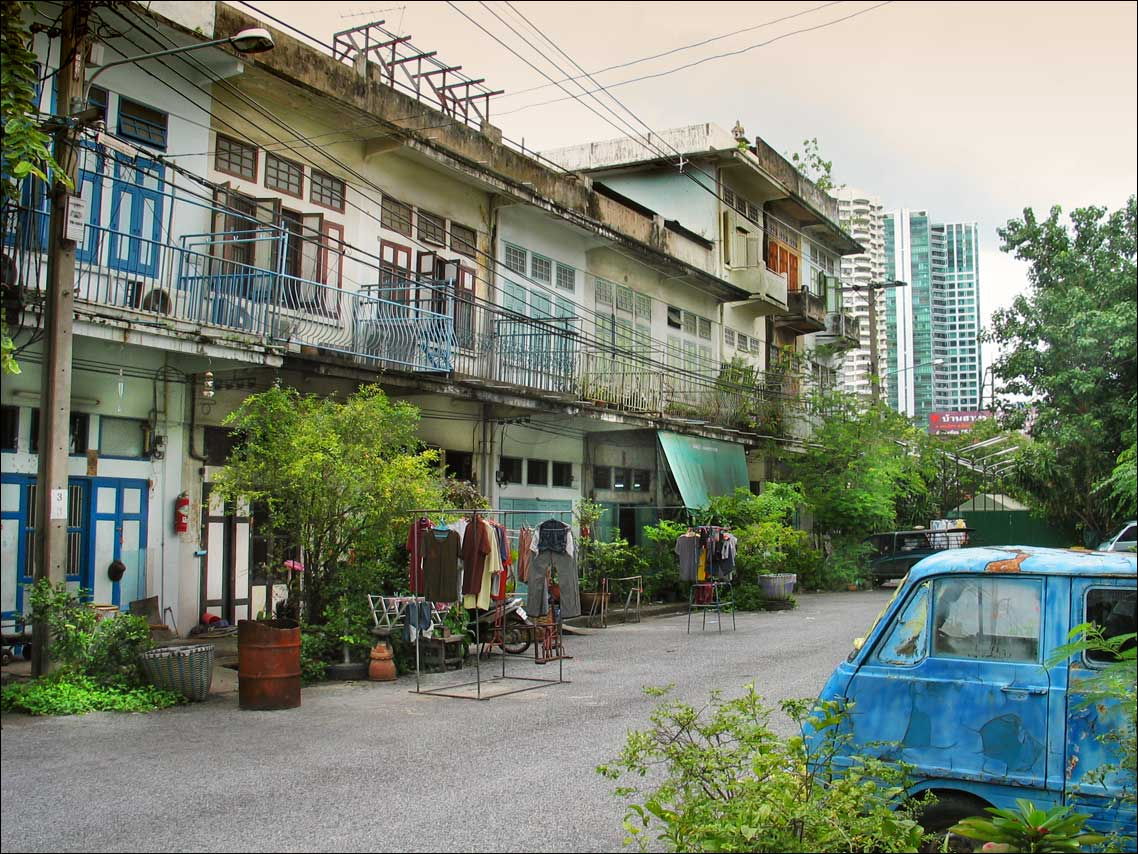 Historic Soi Wanglee, Sathorn district, Bangkok, Thailand.